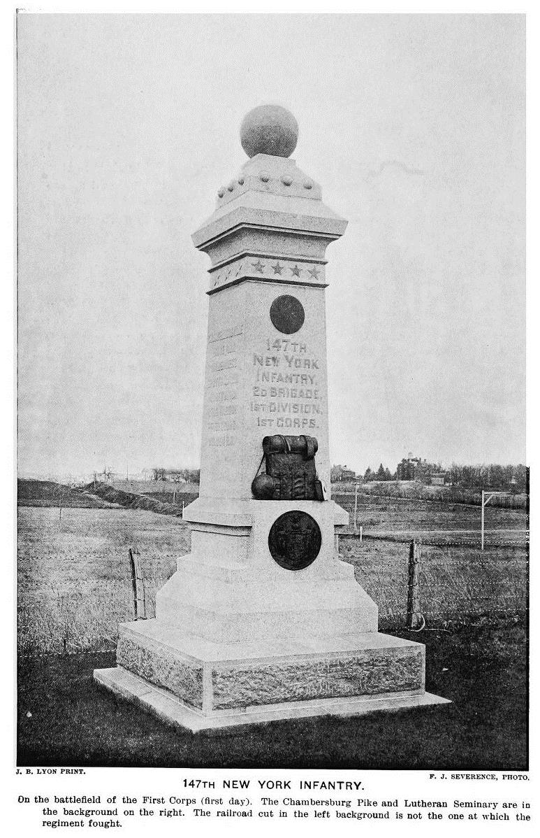 147th New York Infantry Monument, Gettysburg Battlefield. New York Monuments Commission, Final Report on the Battlefield of Gettysburg, Volume 3 (Albany, NY: J. B. Lyons Company, 1902), opp. p. 987.[1]